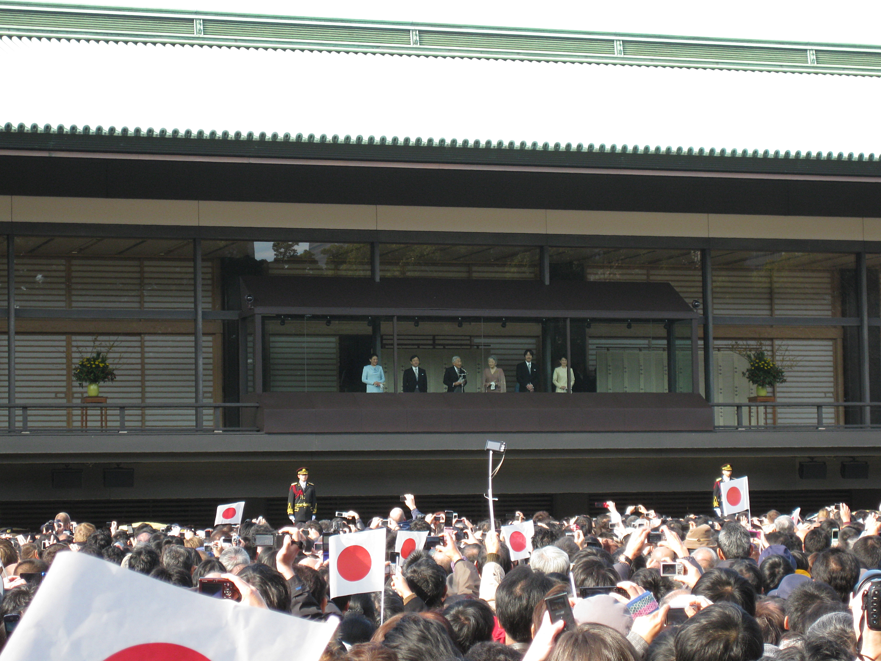 The emperor speaks at the Tokyo Imperial Palace. Japan.